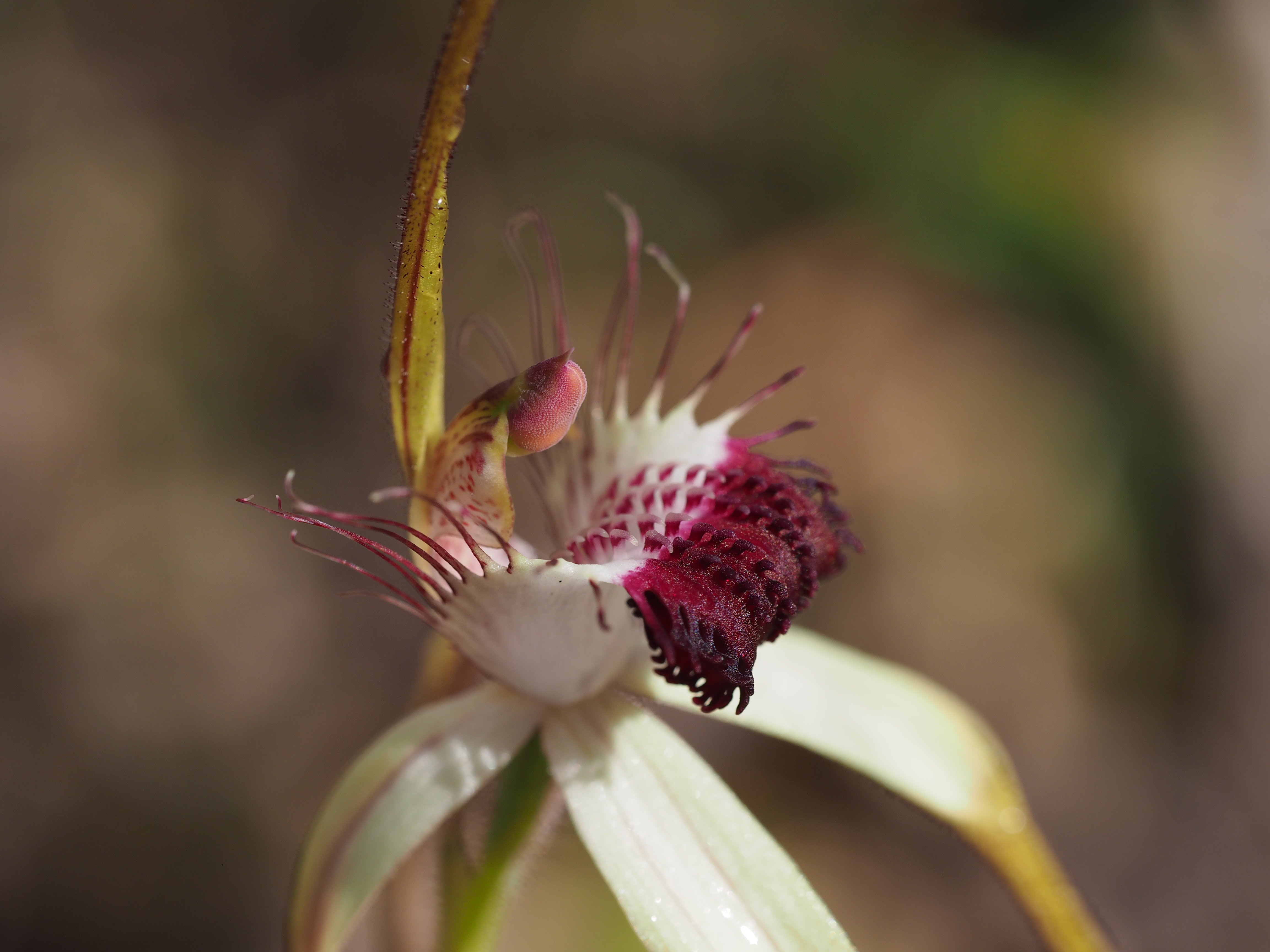 Caladenia thinicola growing near Gracetown in the Leeuwin-Naturaliste National Park in Western Australia